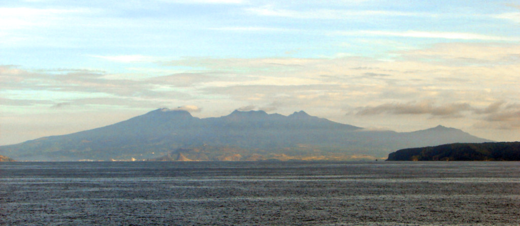 Bataan Peninsula and Mariveles Mountains as seen from Manila Bay, the Philippines. See also: File:Bataan Mariveles 2.JPG